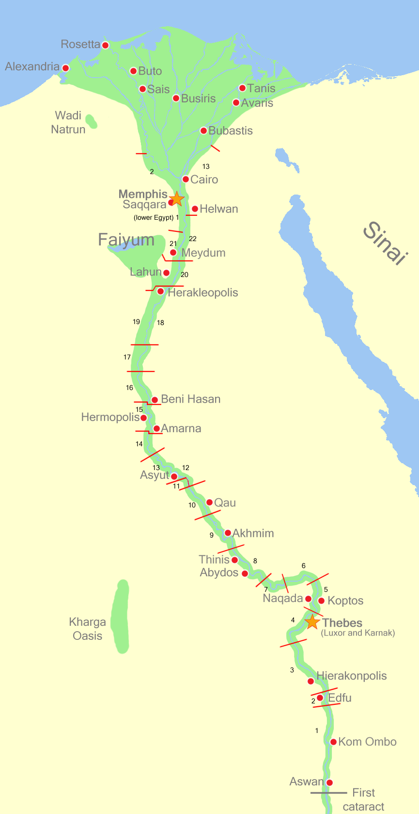 Map showing the Nome divisions of Ancient Egypt. On the Nile in Lower Egypt (Nile Basin ~north of Cairo) and Upper Egypt (Nile Basin ~south of Cairo to Nubia).